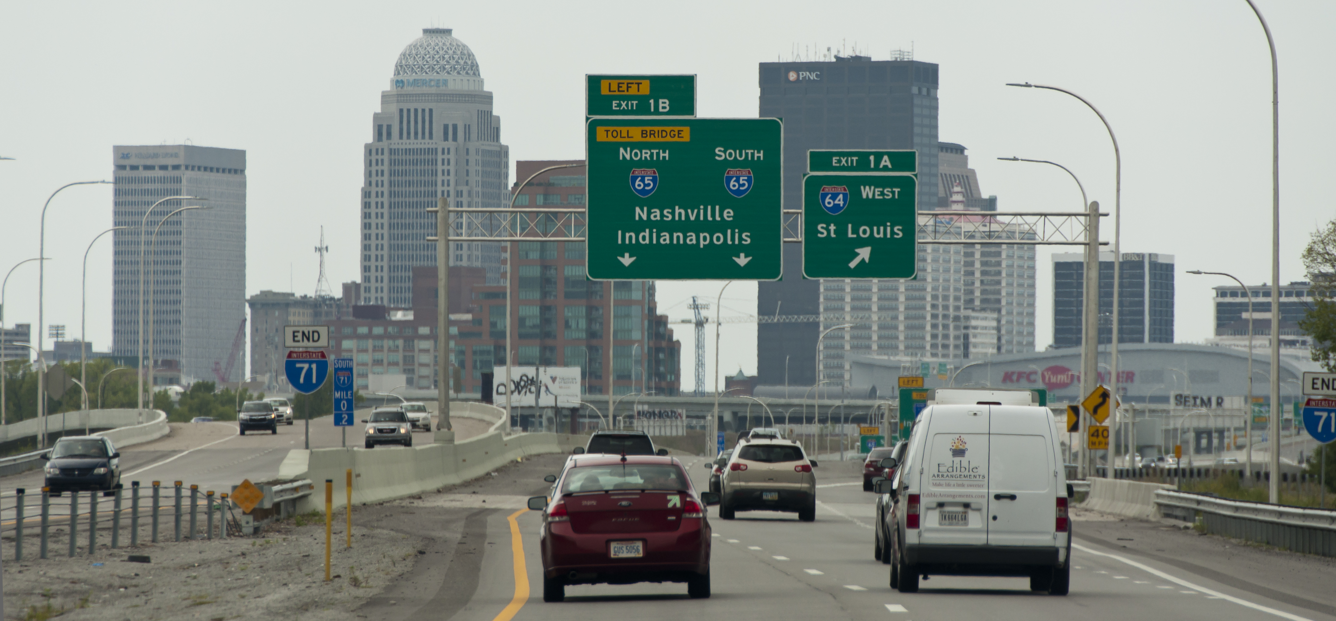 End of Interstate 71 in Louisville, Kentucky. Taken at the junction of Interstate 65 north and south, and Interstate 64 west.